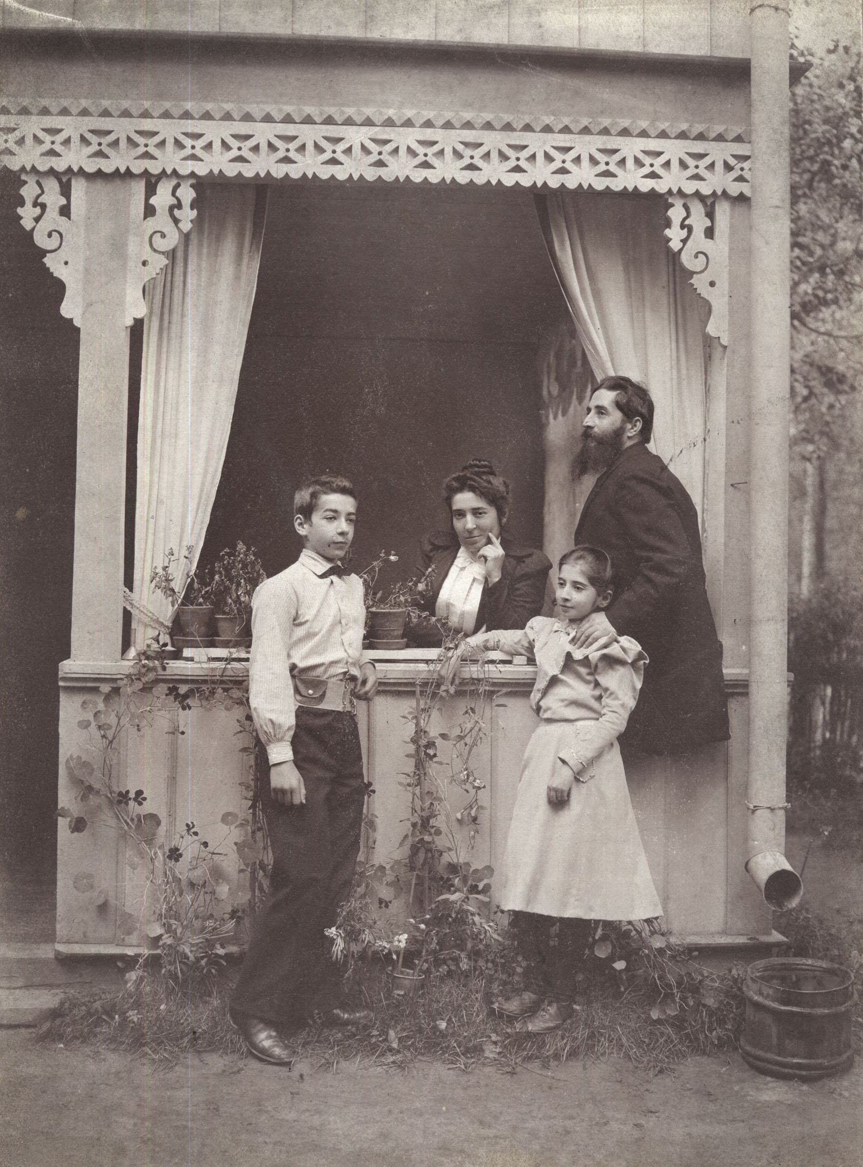 From left to right: Andrei Yappa (Andreas Jappa), his mother Rosa, his sister Elena, and his father Pavel (photo taken in late 1890s)